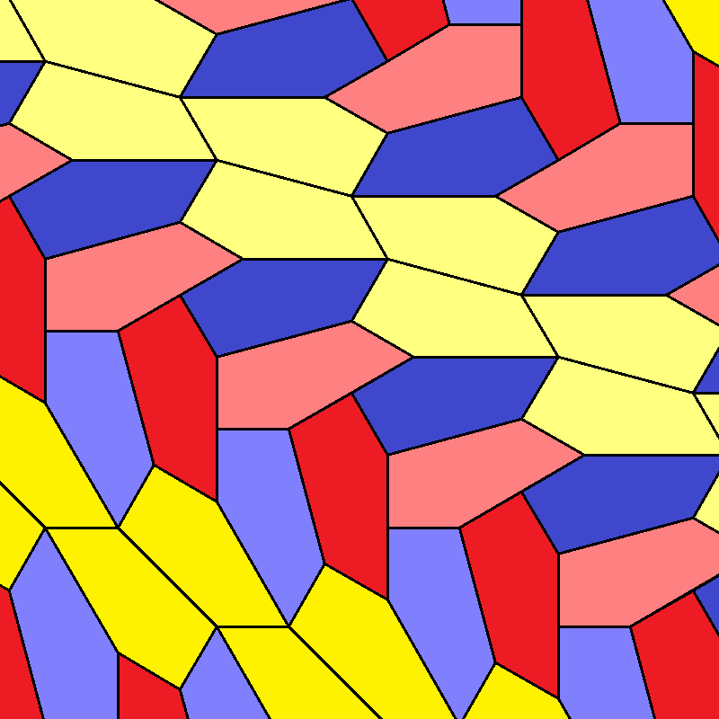 chiral 5-isohedral coloring. Monohedral convex pentagonal tiling, 3-isohedrally colored, by permission from